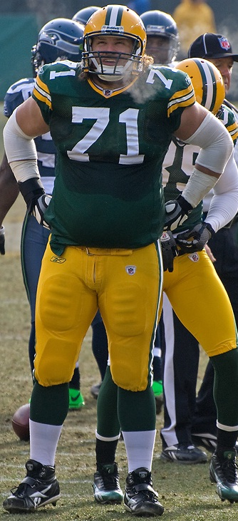 Seattle vs. Green Bay • December 27, 2009 at Lambeau Field in Green Bay, Wisconsin.